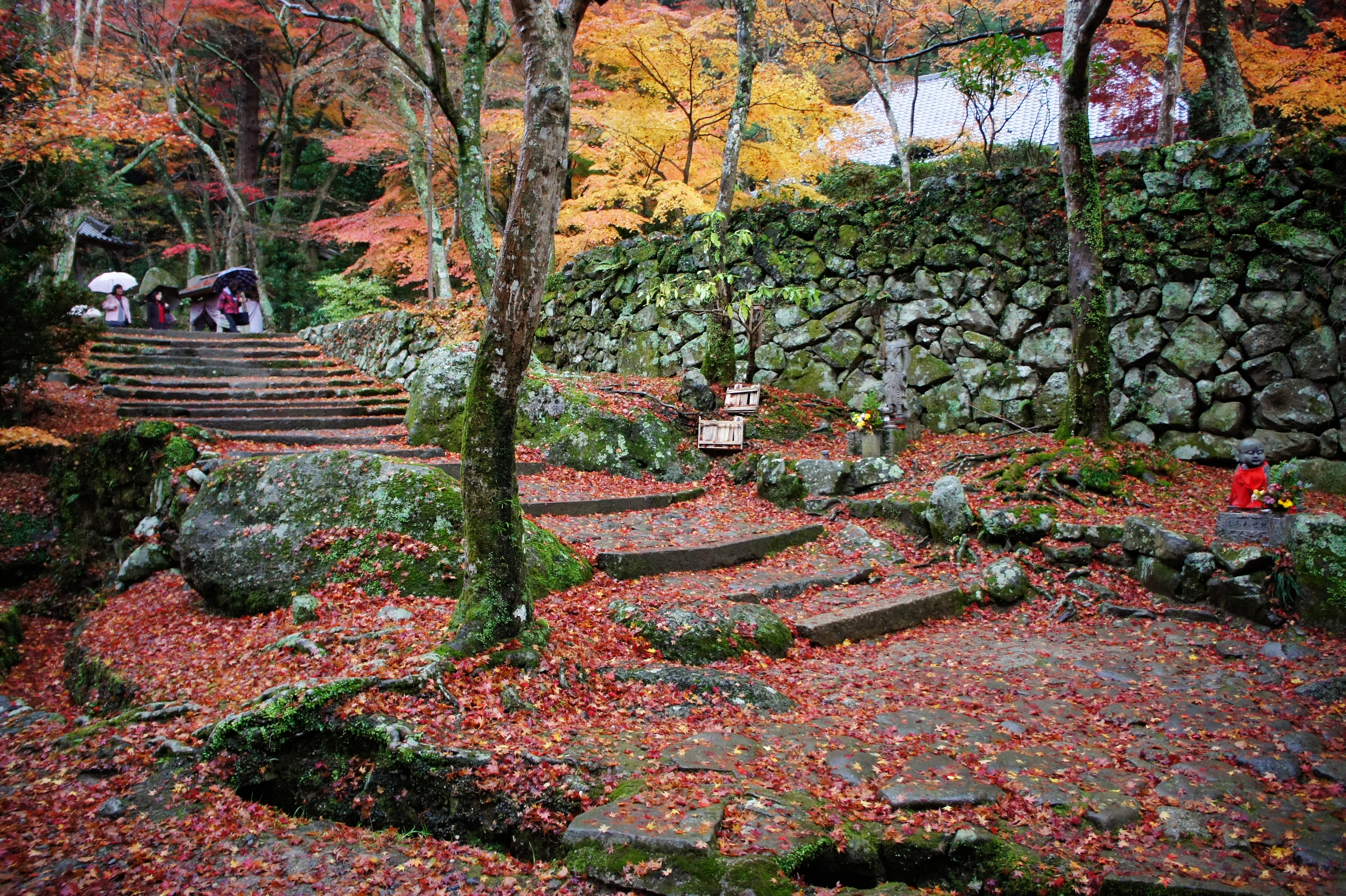 Dai-itoku-ji in Kishiwada, Osaka prefecture, Japan